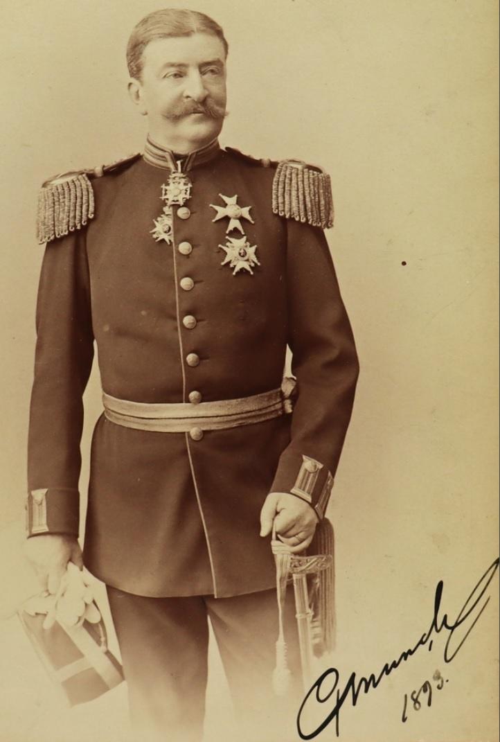 Picture of Carl Bror Munck af Fulkila, Swedish officer